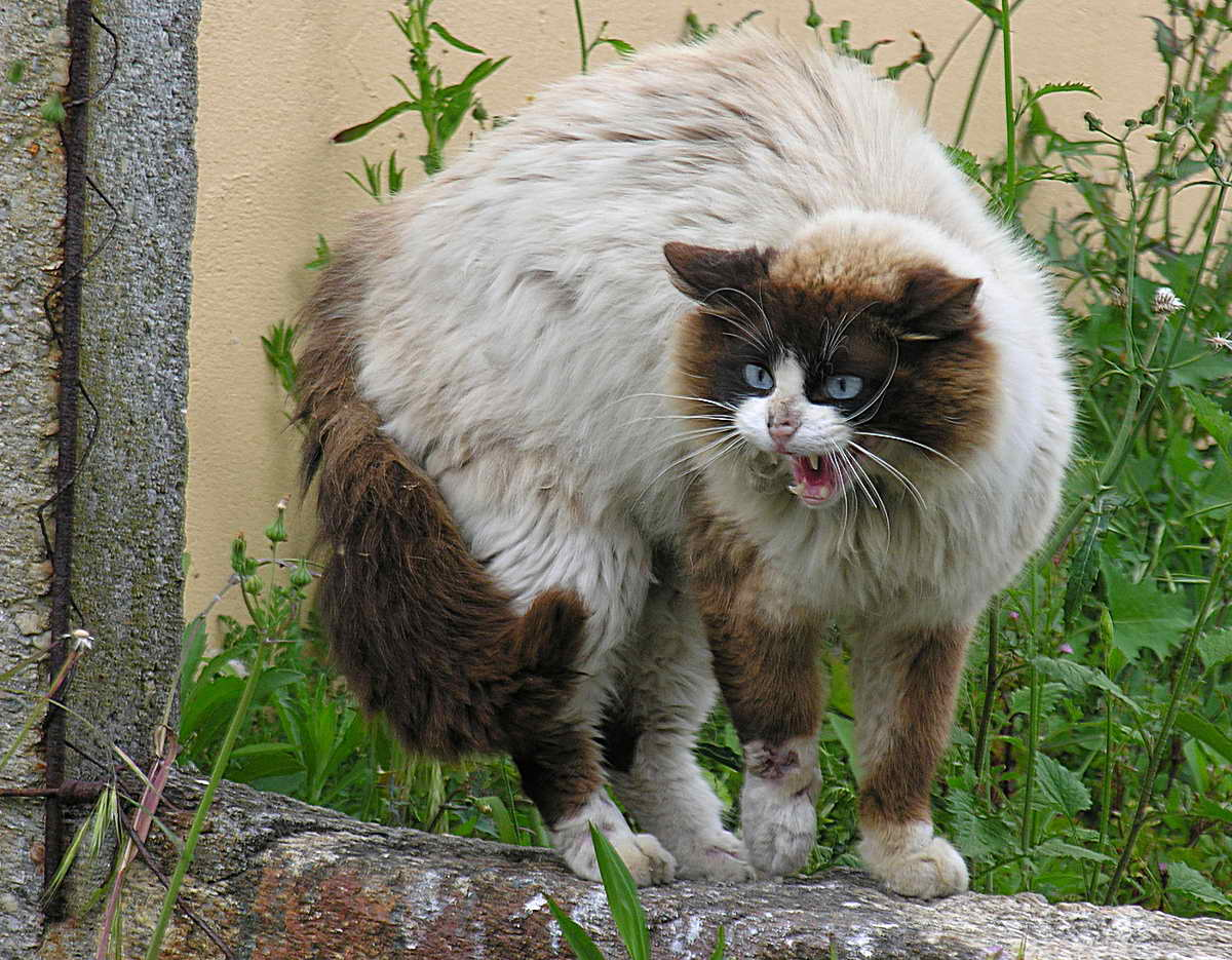 A cat arching its back up and hissing at a dog.